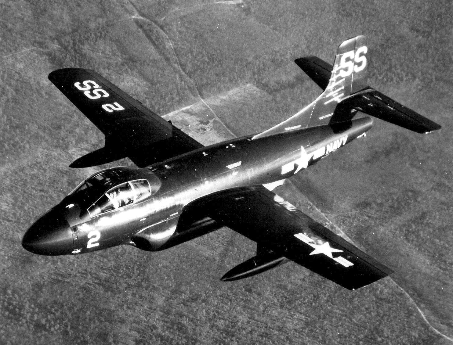 A U.S. Navy Douglas F3D-2 Skyknight from Composite Squadron VC-33 "Night Hawks" in flight, in 1952.